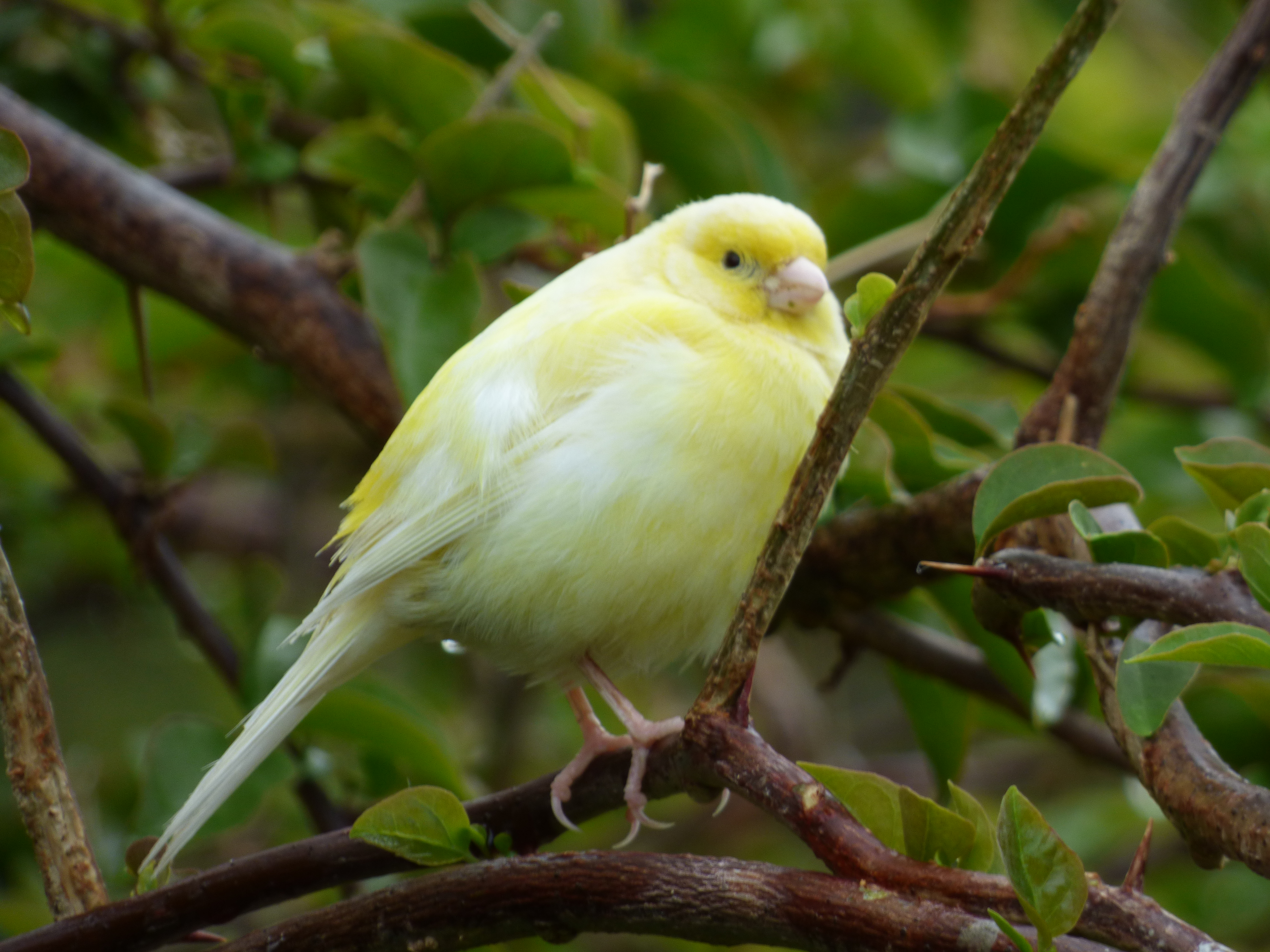 A yellow canary perched in a tree